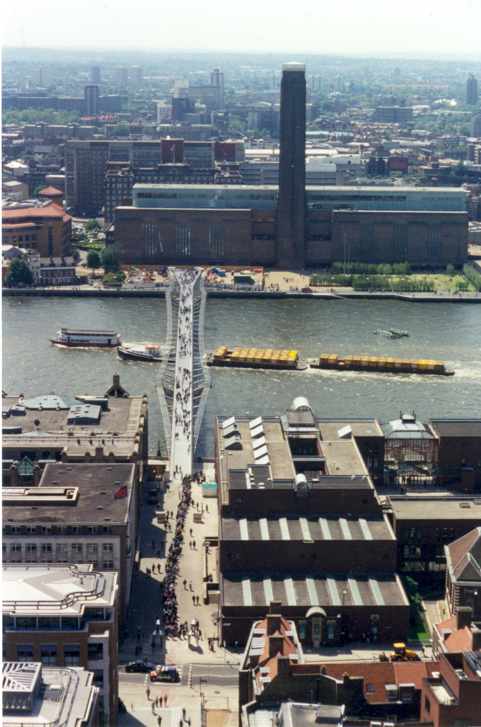 View from the top of St Paul's Cathedral of Tate Modern and the Millennium Bridge, London. The photo was taken two days after the bridge opened and was discovered to suffer from harmonic vibrations induced by people crossing. An attempt to limit the numbers of people crossing the bridge did not dampen public enthusiasm for what was something of a white-knuckle ride, or the vibrations themselves, but led to the long queues visible on both banks of the Thames. The bridge was closed on the day this photo was taken for lengthy reconstruction, and reopened in February 2002. A barge train visible in the river is probably taking waste to landfill sites downstream of the city. Photo taken by wurzeller on 12 June 2000 and released under terms of the GFDL licence.